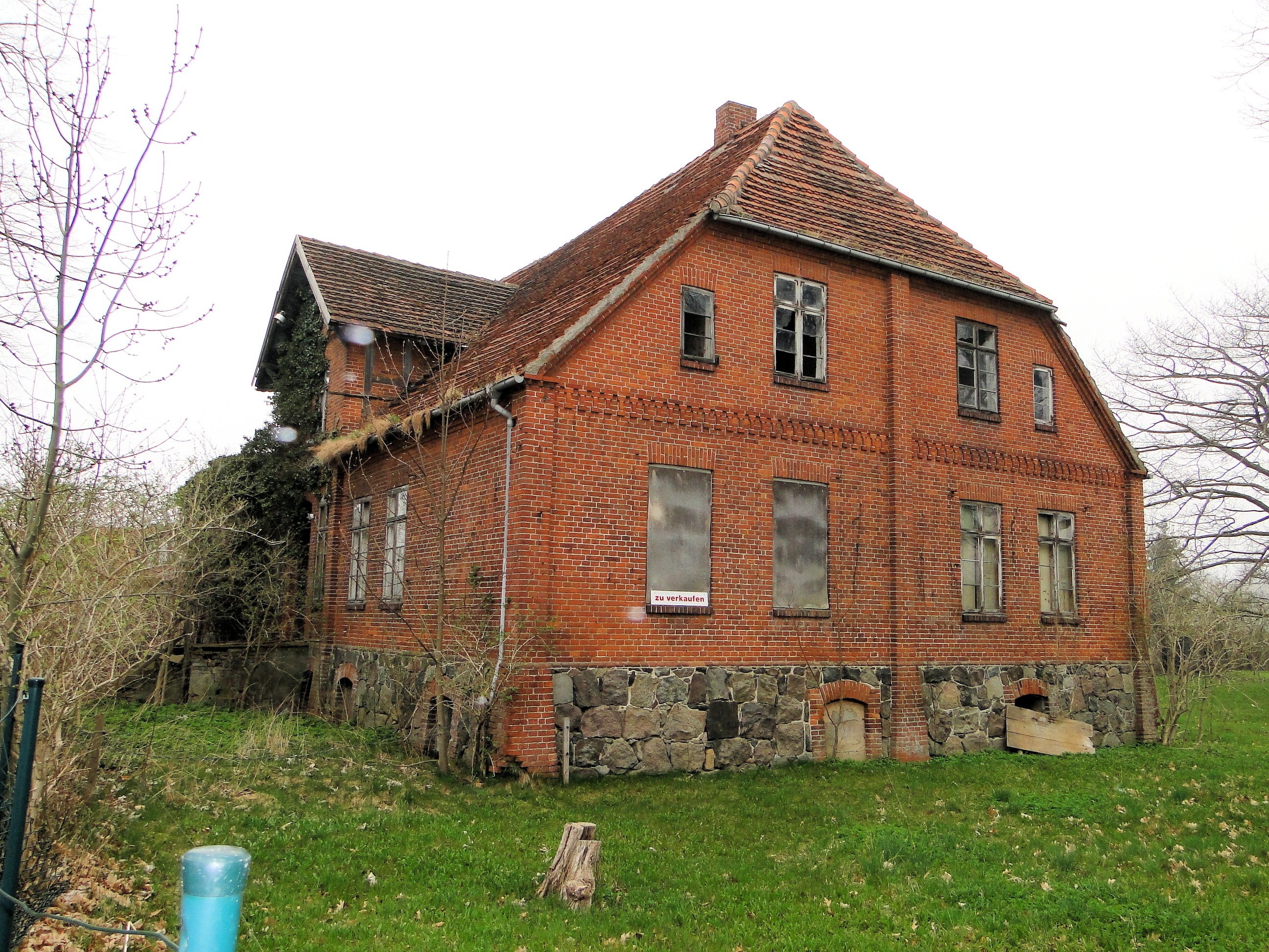 Abandoned manor house in Mühlenhof, district Ludwigslust-Parchim, Mecklenburg-Vorpommern, Germany